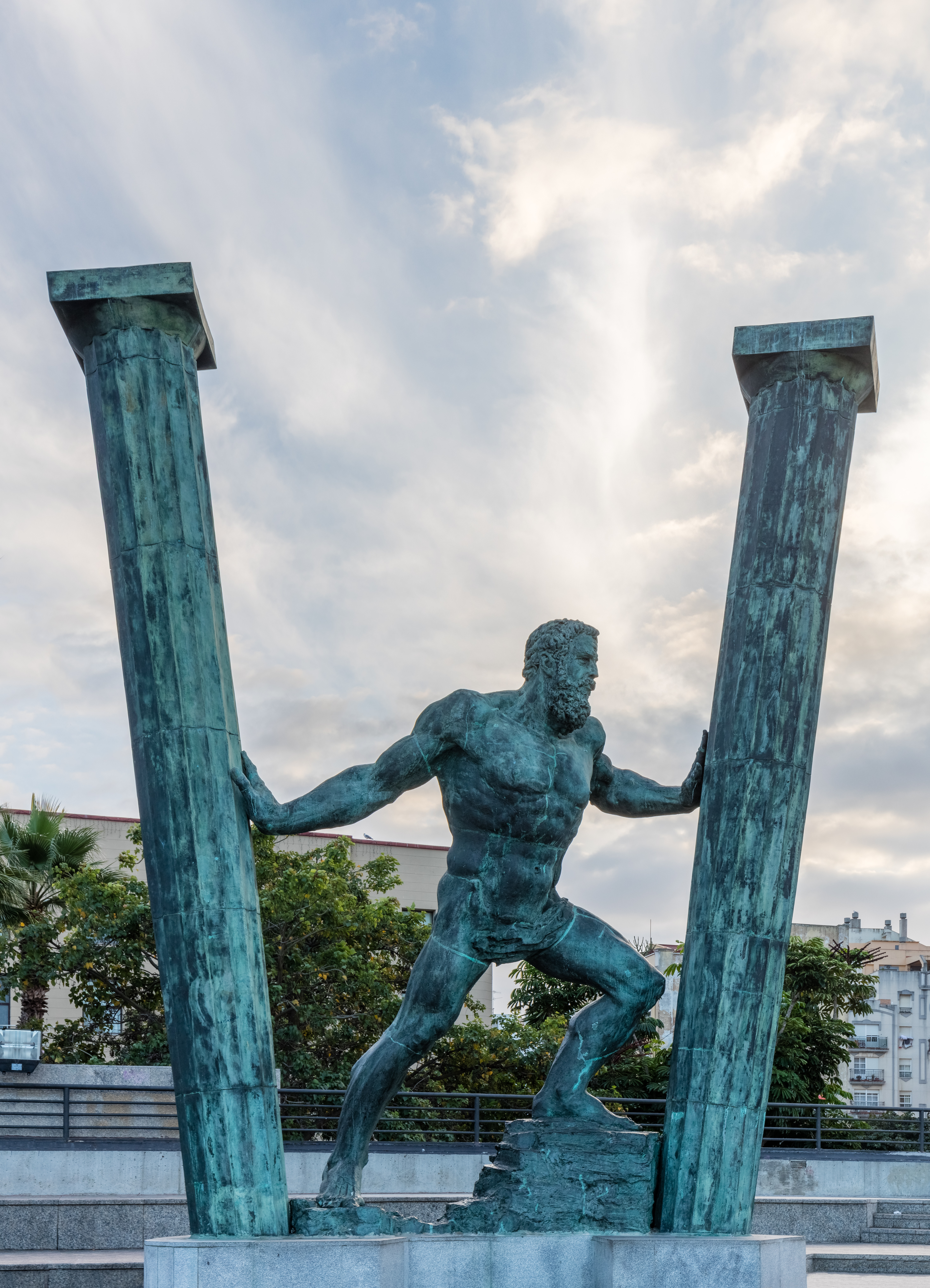 Sculpture of The Pillars of Hercules: Abyla and Calpe, Ceuta, Spain. The scultpure is a work of Ginés Serrán Pagán and dates from 2007. It's 7 metres (23 ft) and 4 tons heavy.